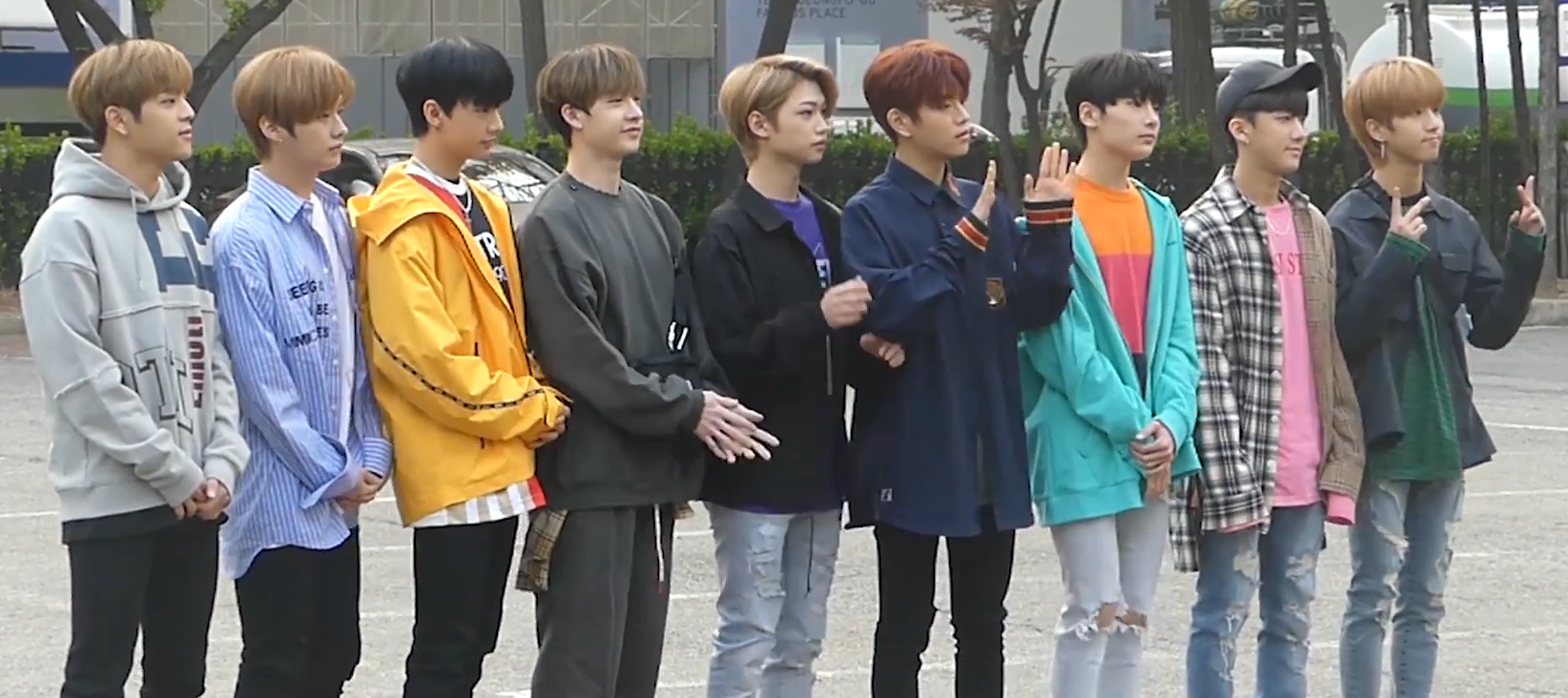 Stray Kids at a rehearsal for Music Bank